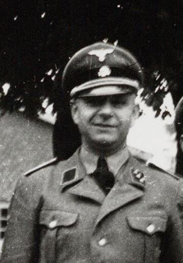 Amersfoort War Camp. Group SS people. Third from left: J.F. Stöver, far right: Karl Peter Berg. Date: 1941-1943